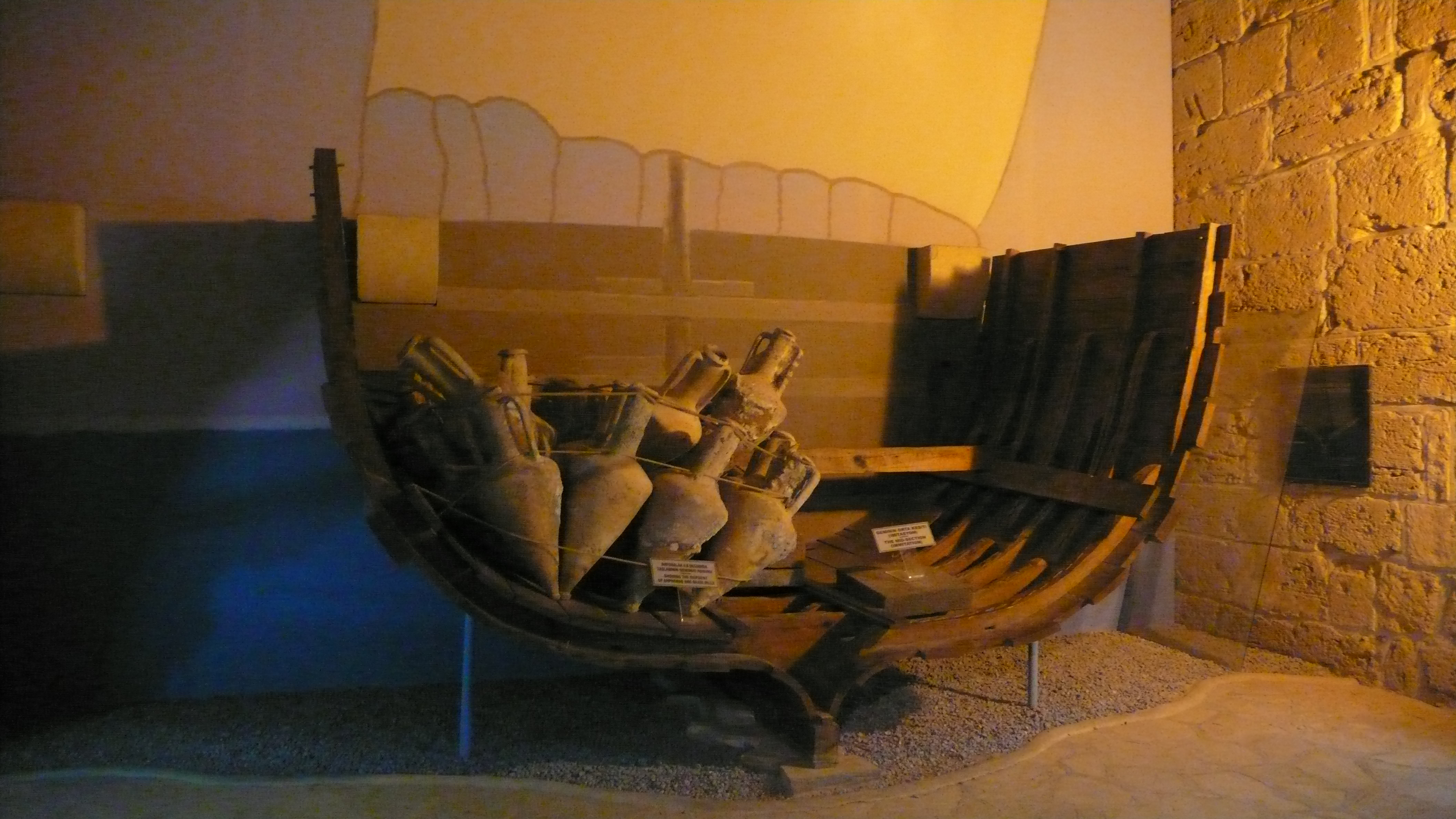 Kyrenia Castle